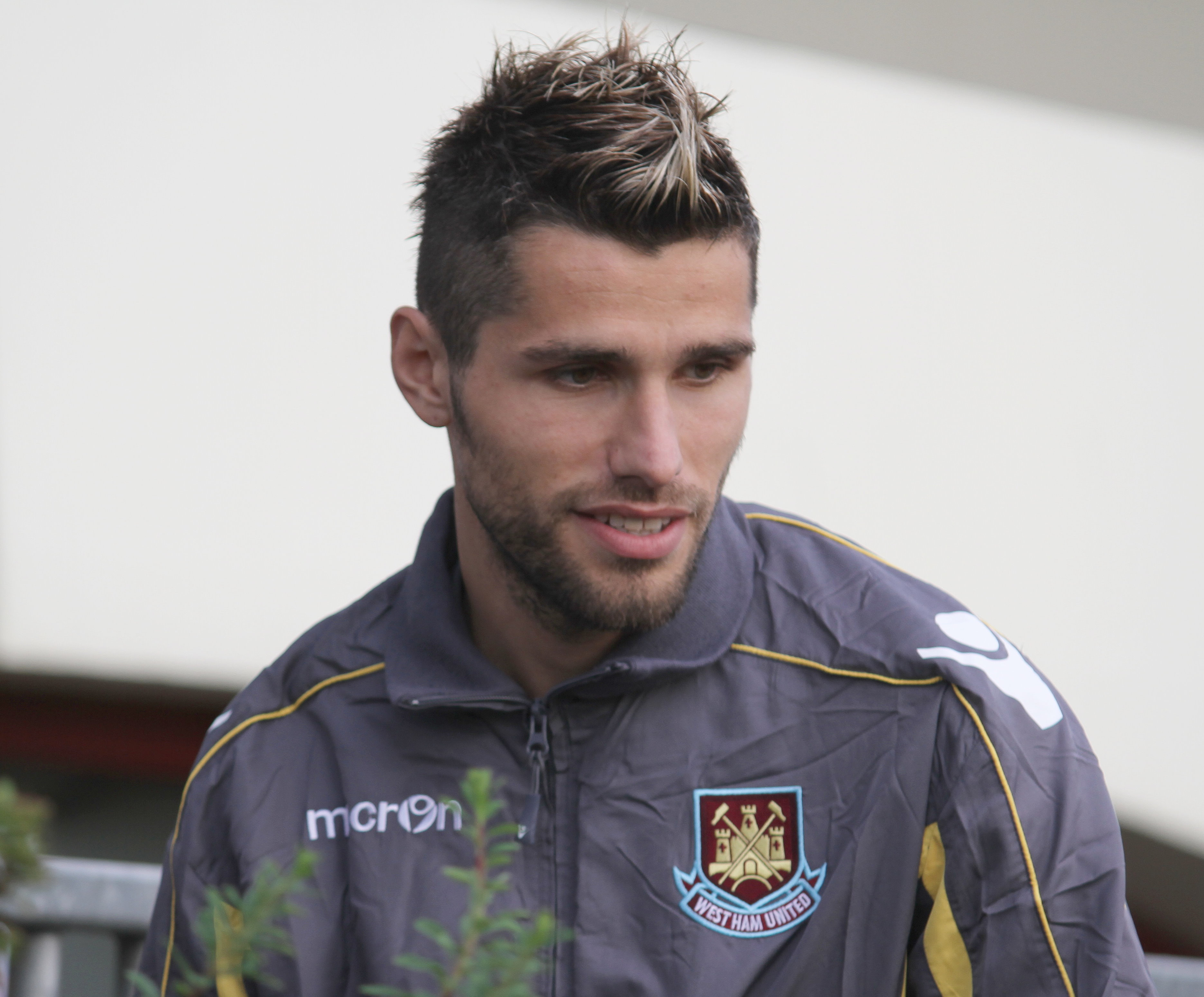 Valon Behrami Upton Park 11Sept10